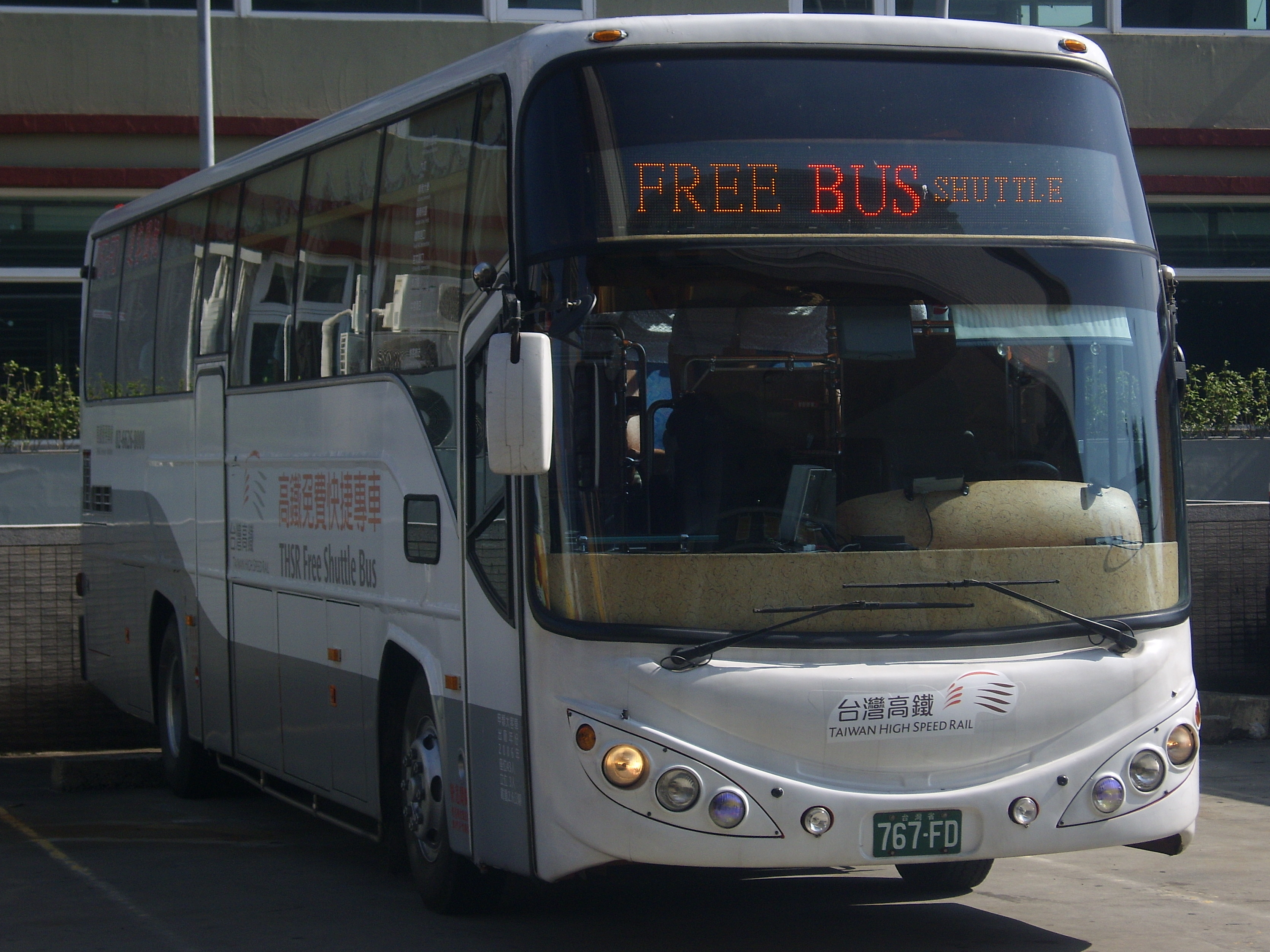 Taoyuan Bus - Taoyuan City Free Shuttle.